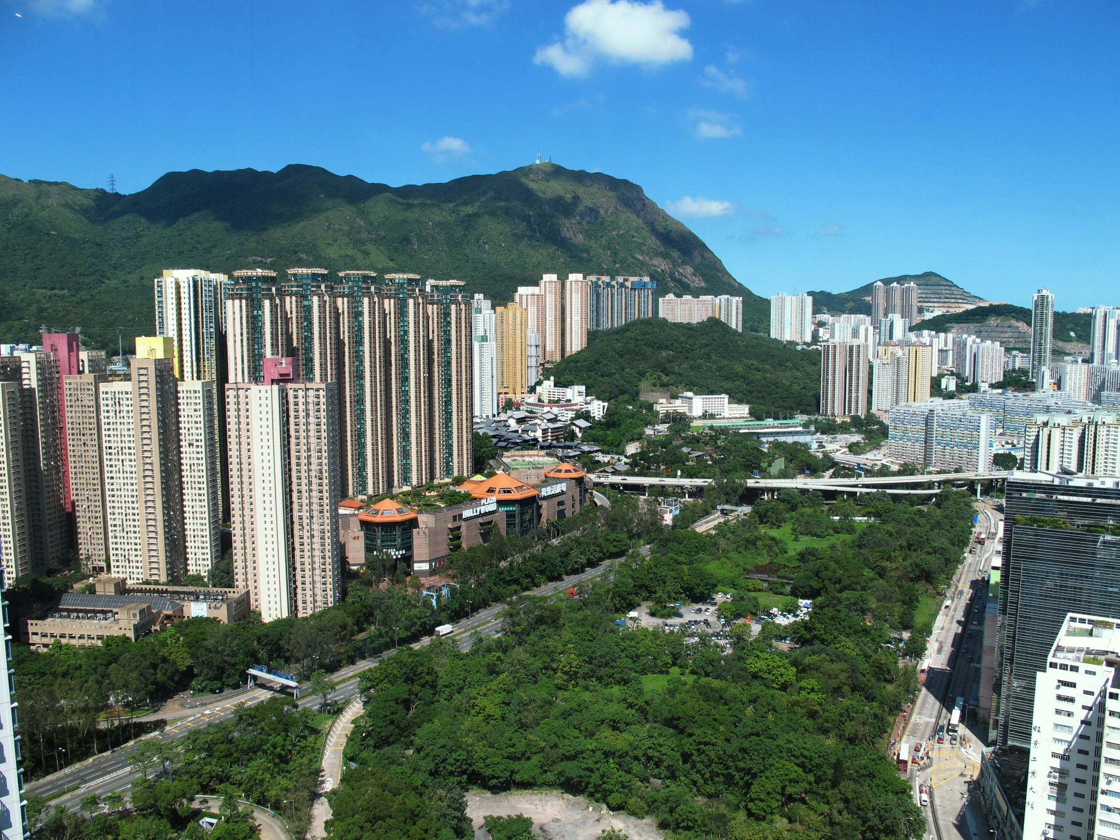 Diamond Hill 鑽石山